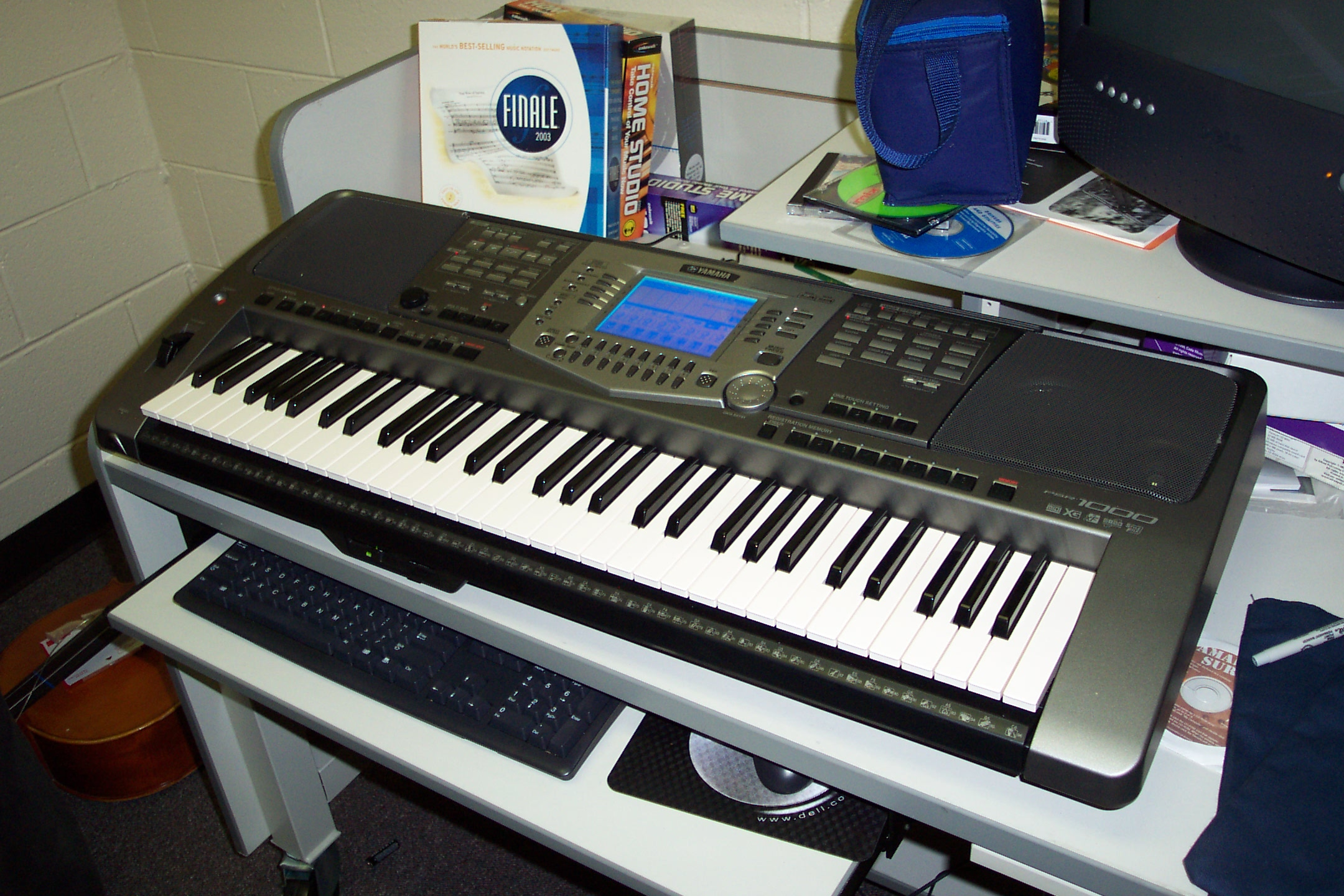 Yamaha PSR1000